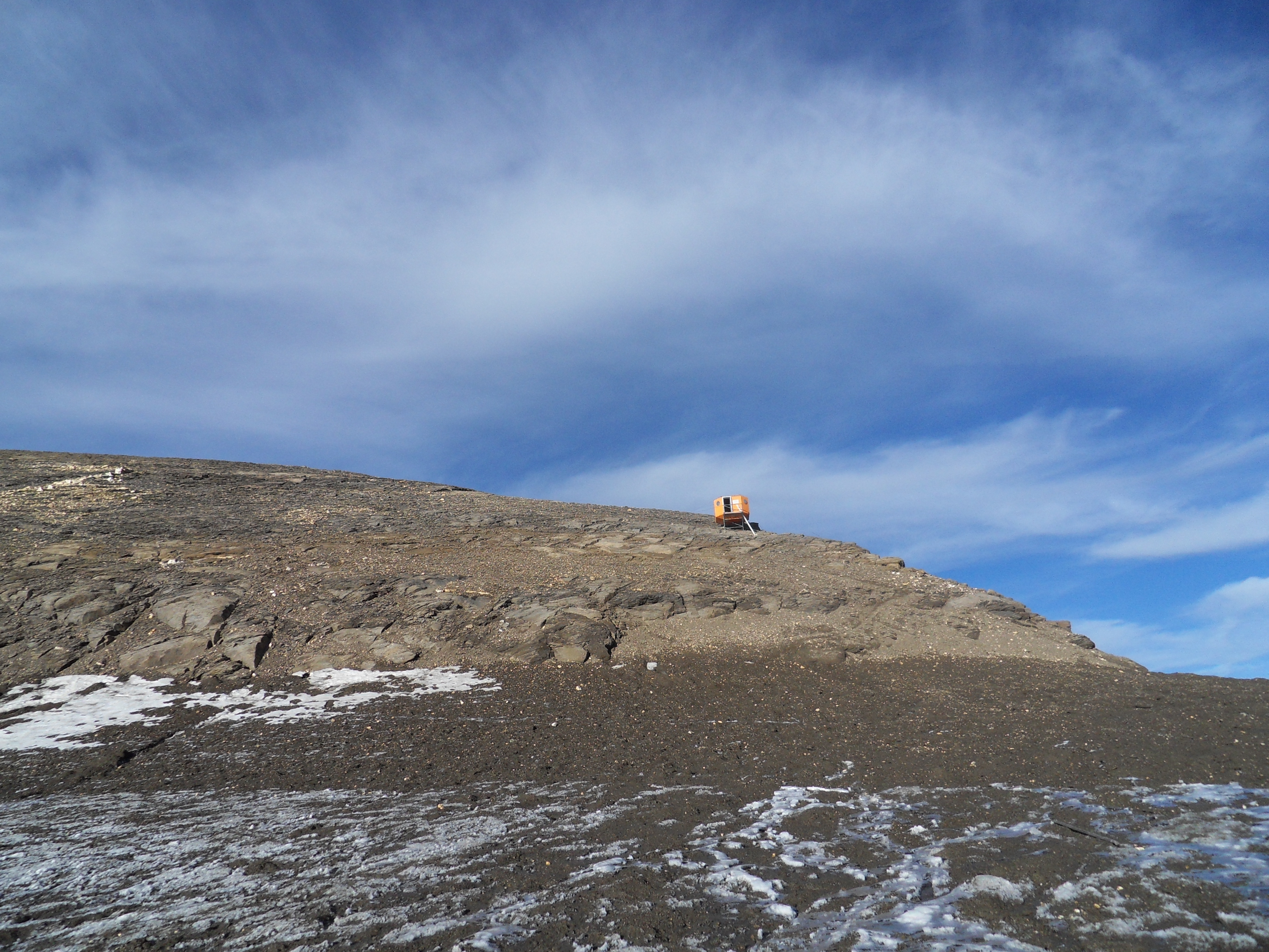 Gruberscharten-Biwak at the Glocknergruppe, Austria.